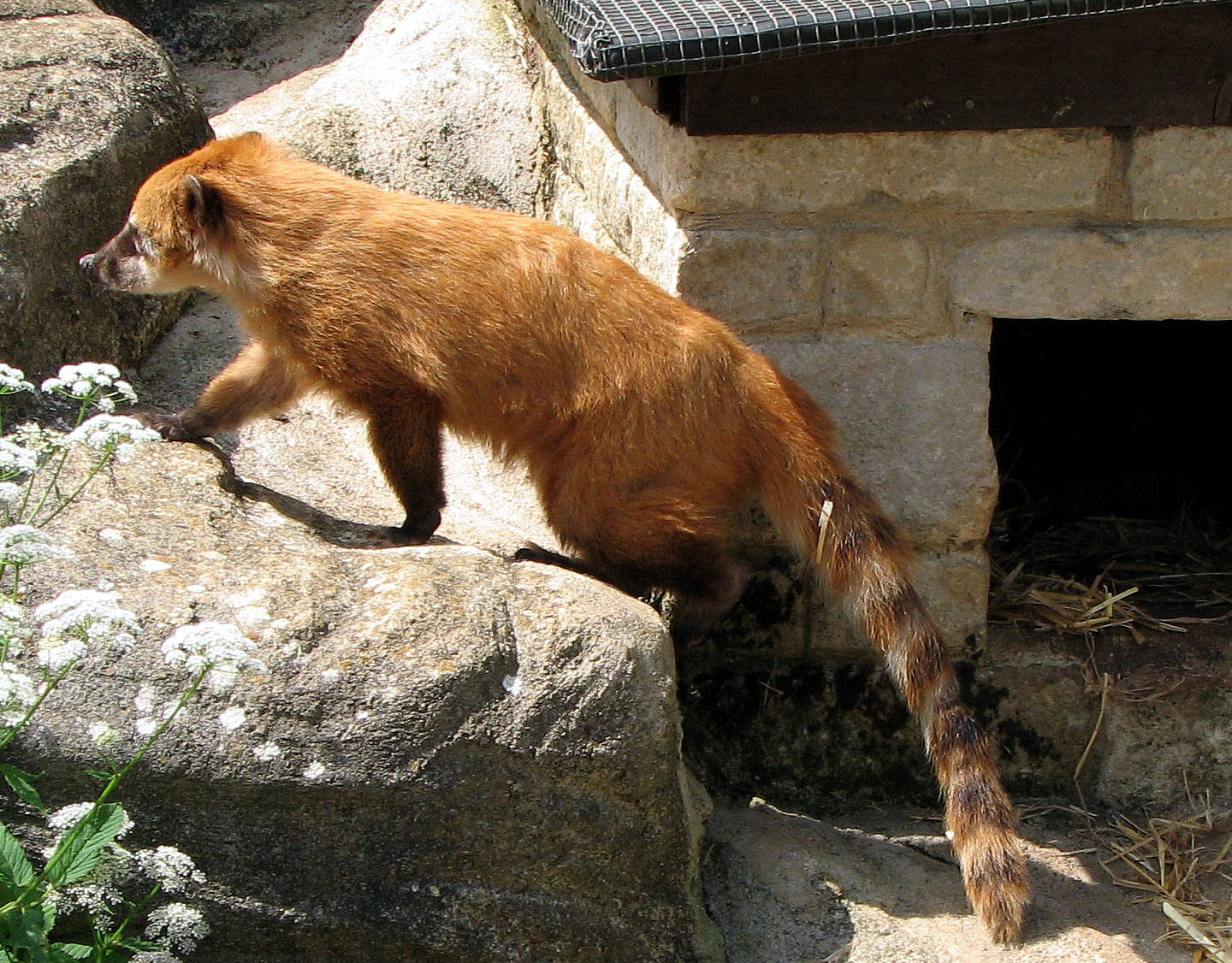 Ring-tailed Coati Nasua nasua at the Cotswold Wildlife Park, Burford, Oxfordshire, England. Photographed by Adrian Pingstone in June 2006 and placed in the public domain.